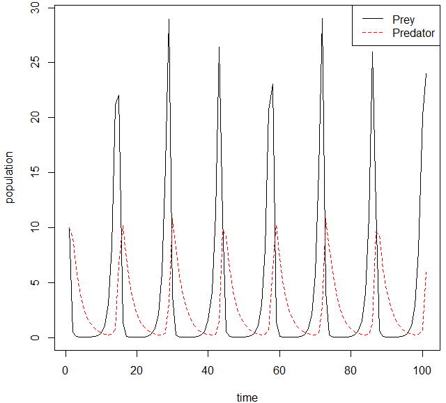 Lotka-Volterra model of predator/prey dynamics. The four parameters are prey growth rate; prey eaten by predator rate; predator death rate; predator benefit from eating prey. Alpha=1.1; Beta=0.4; Gamma=0.4; Delta=0.1